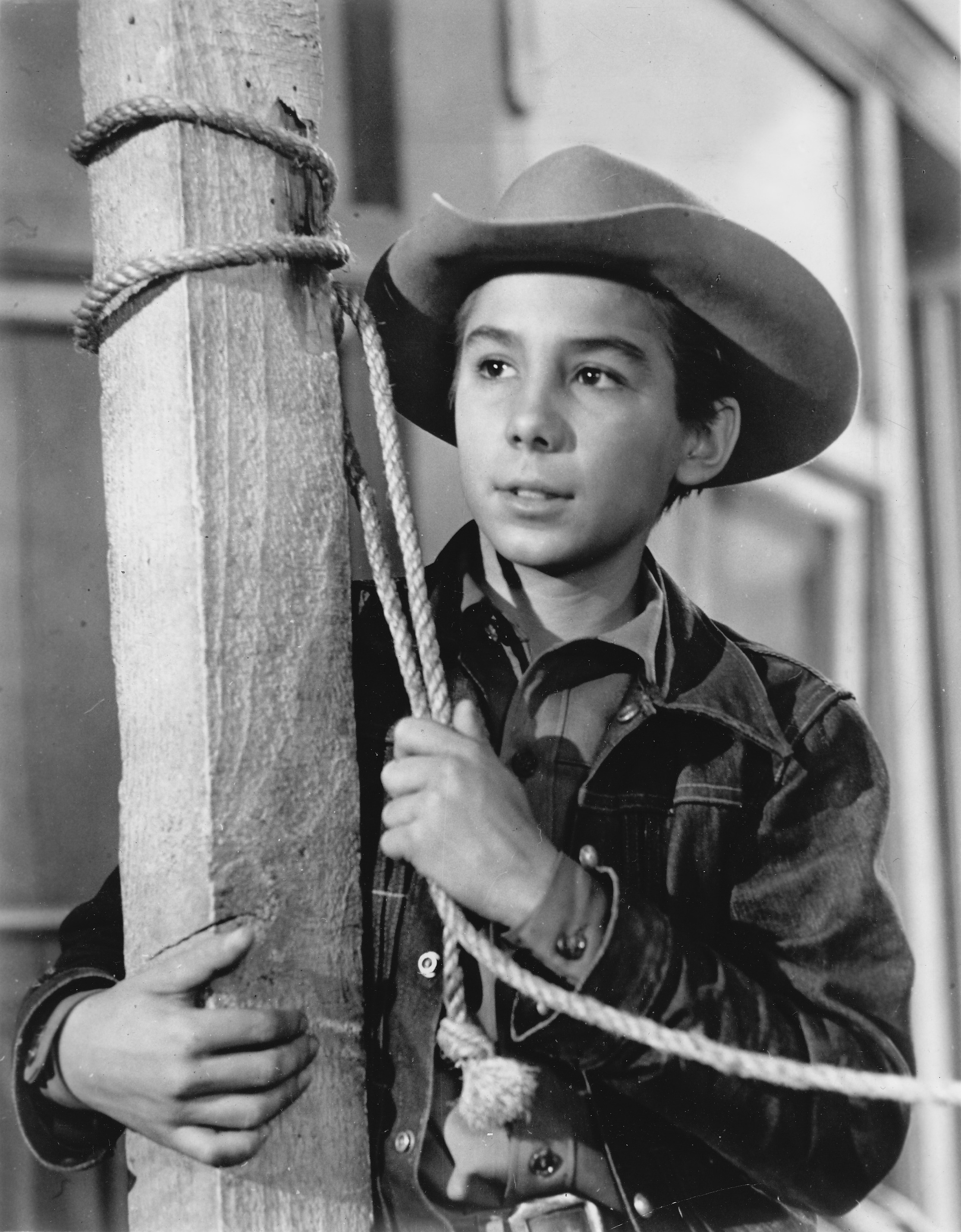 Publicity photo of American child actor, Johnny Crawford promoting his role on the ABC television series The Rifleman, circa 1961.